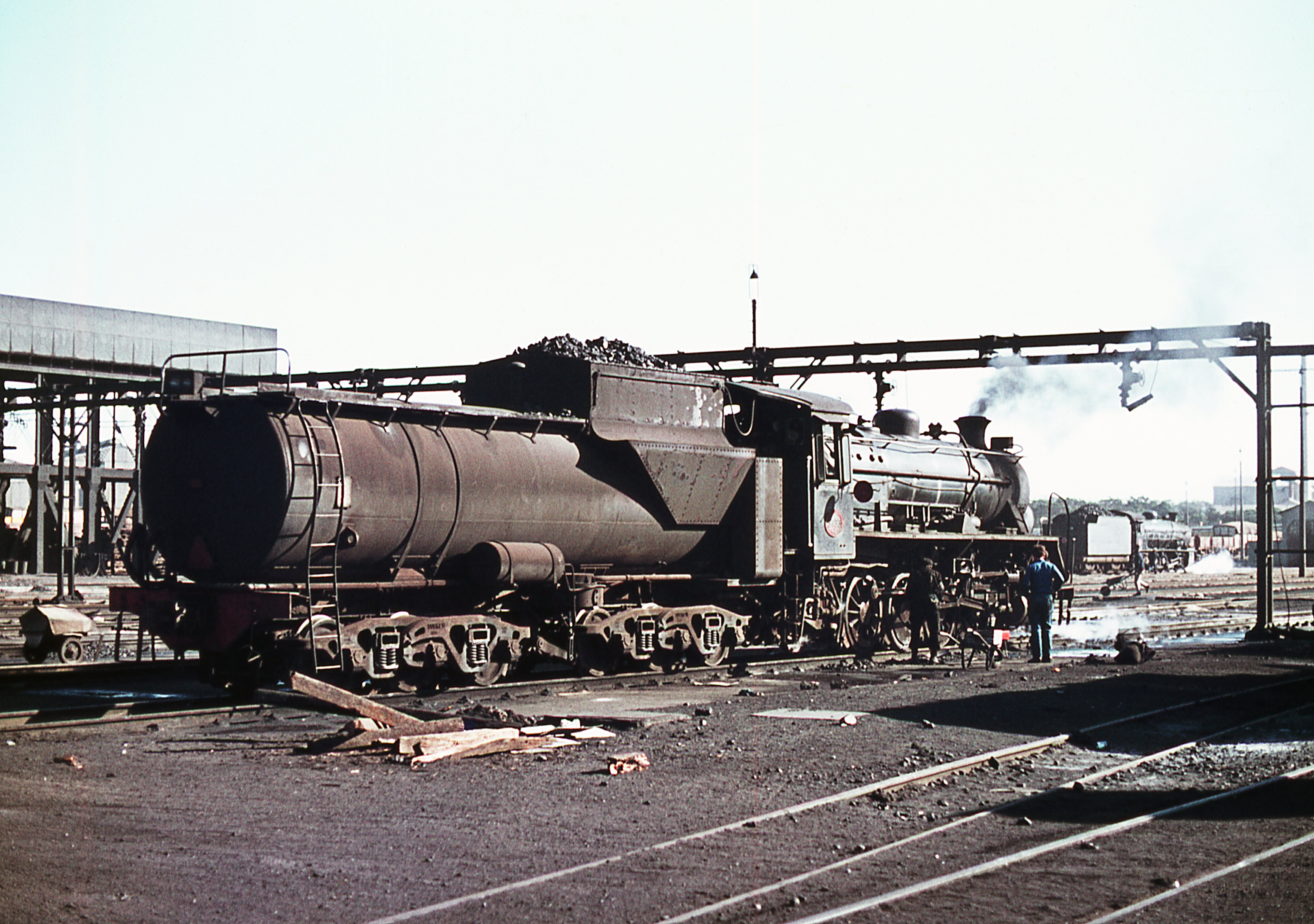 Class S2 3733 (0-8-0)Location: Sydenham depot